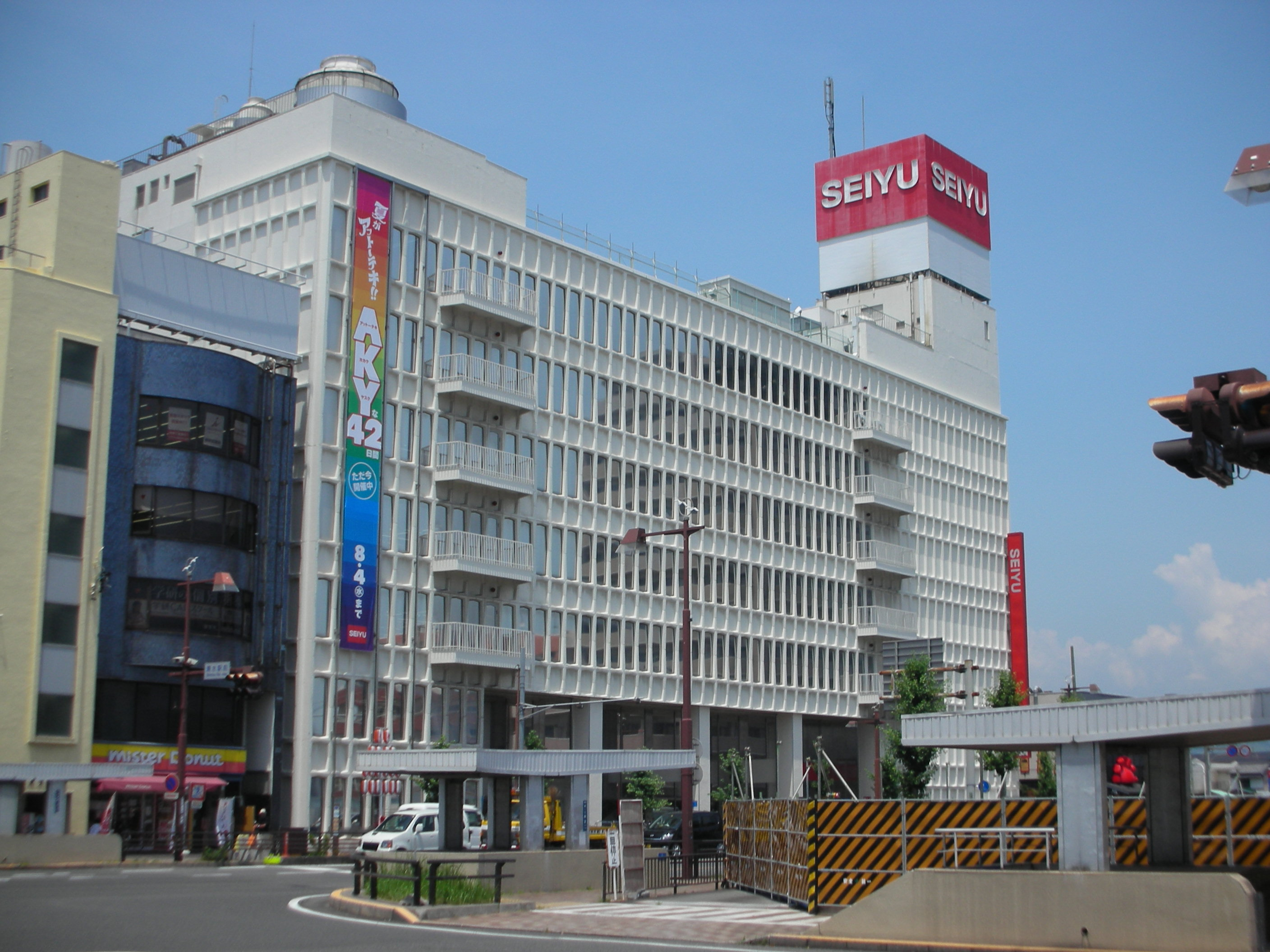 Seiyu Shimizu store in Shizuoka City, Shizuoka Prefecture Shimizu-ku